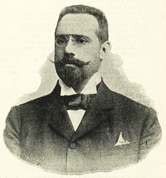 José Malheiro Reimão (1860-1951), Portuguese politician of the Constitutional Monarchy.